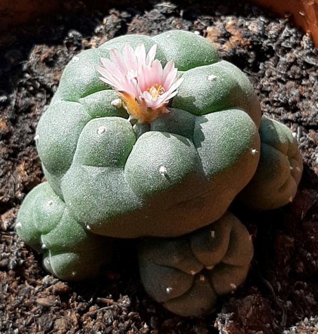 Double flower